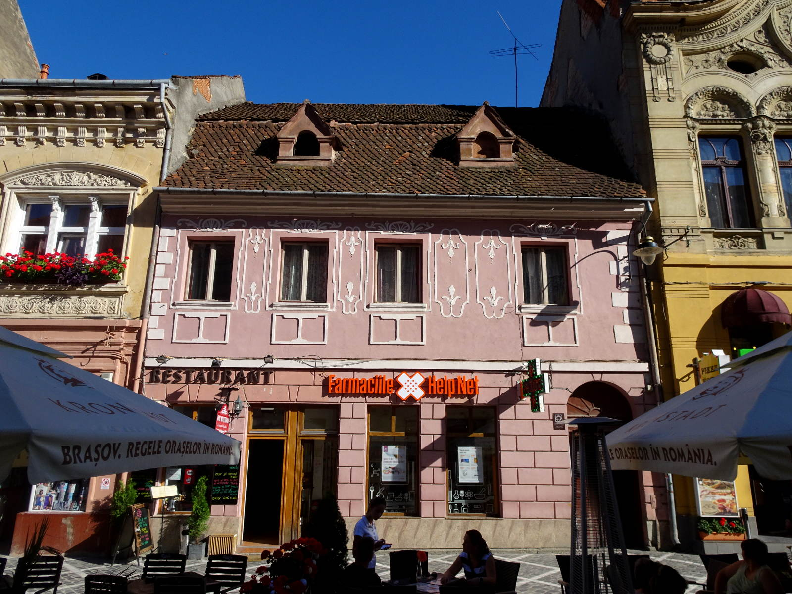 House on Republicii street, Brașov